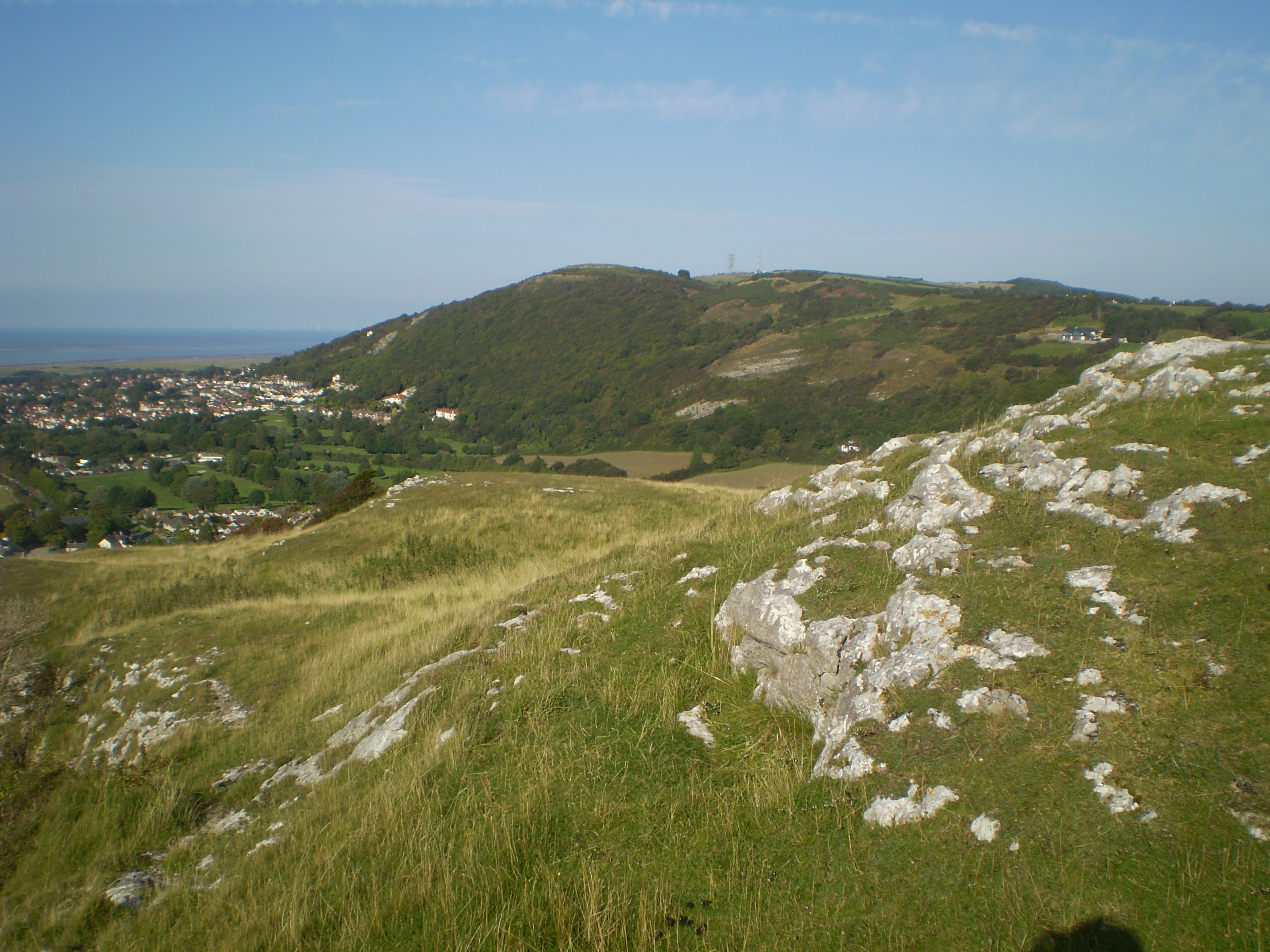 prestatyn hillside from graig fawr hill wales